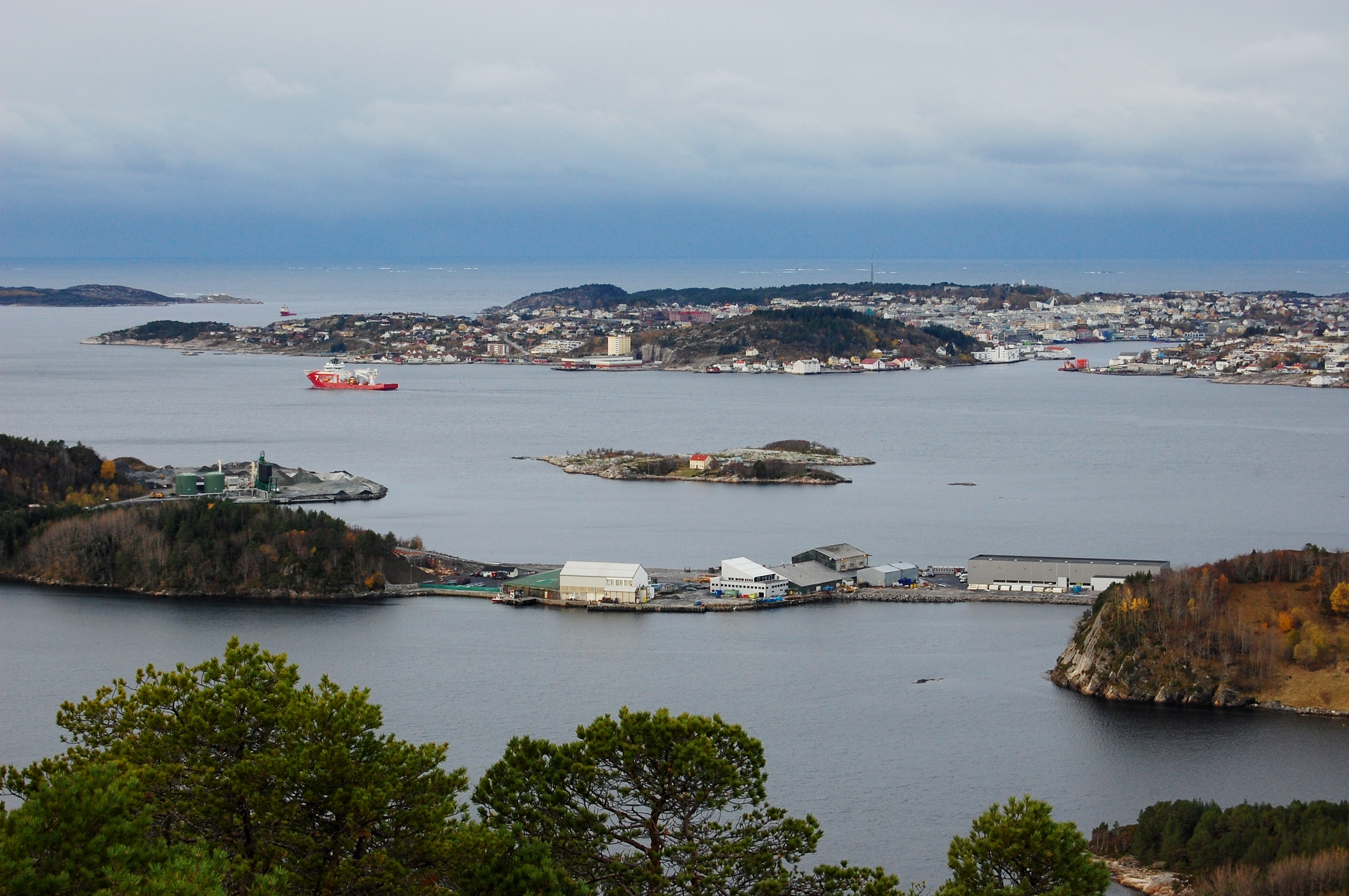 Fugløya in center, parts of Kristiansund city in the background, Møre og Romsdal, Norway.